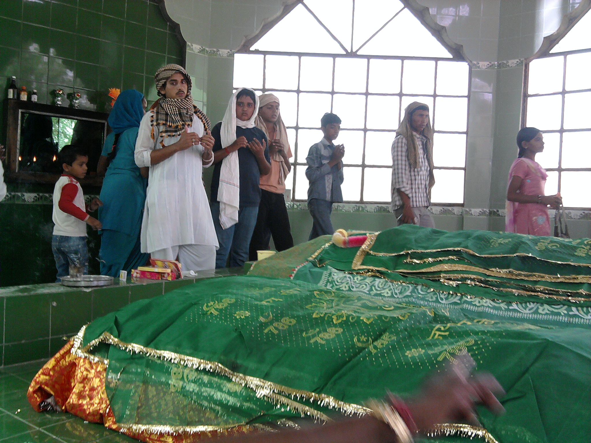 I,Sivender Singh(Wikiuser:Shemaroo) have taken this photo with my phonecamera.In this photo you can see people offering prayers in socalled Laila Majnun Mazar(mausoleum) at 6MSR(Binjaur) village near Anupgarh,India. Shemaroo (talk) 10:25, 14 June 2012 (UTC)